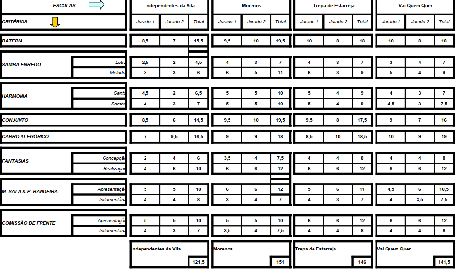 Results of Carnival of Estarreja in 2007